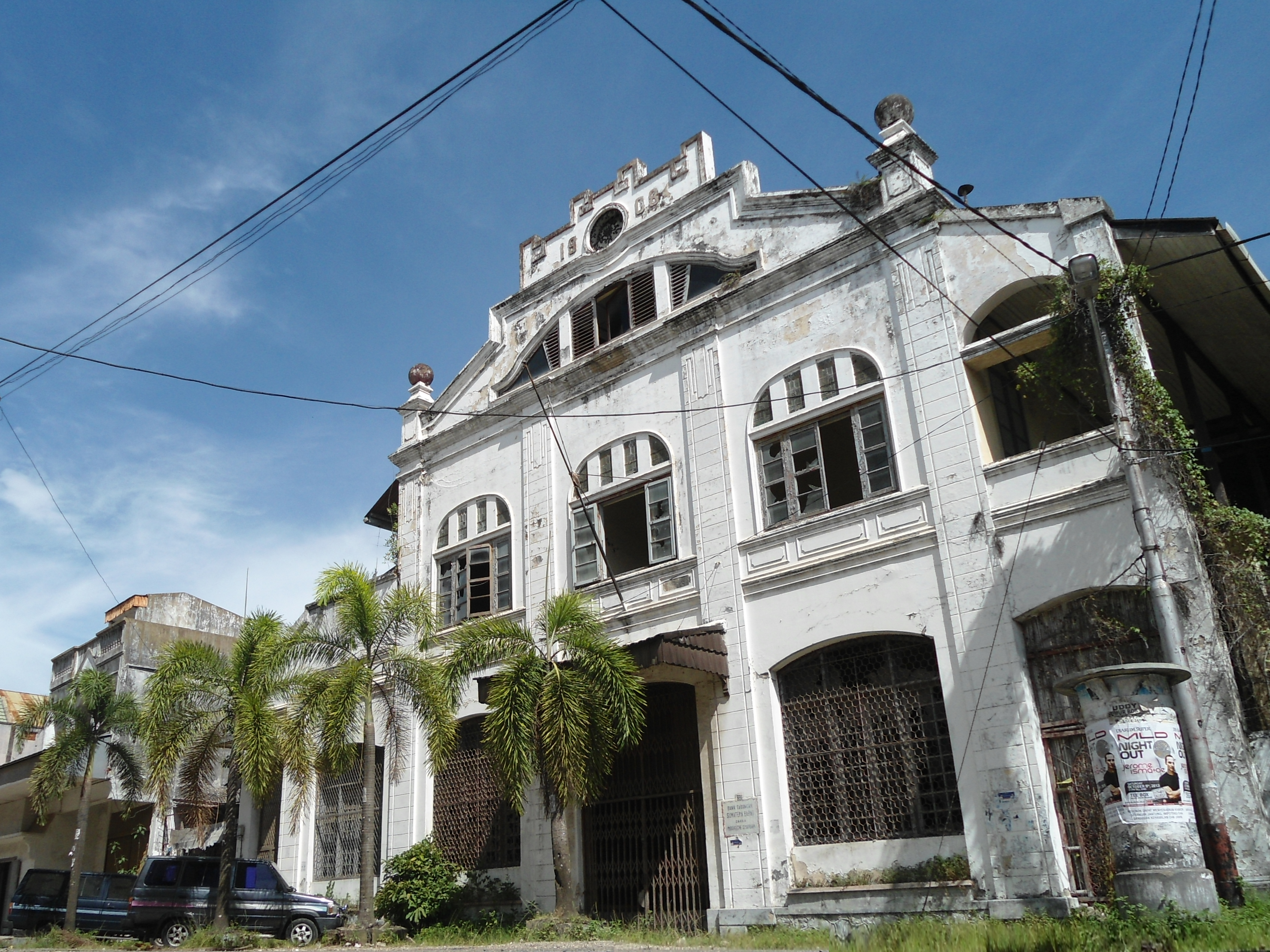 Padang